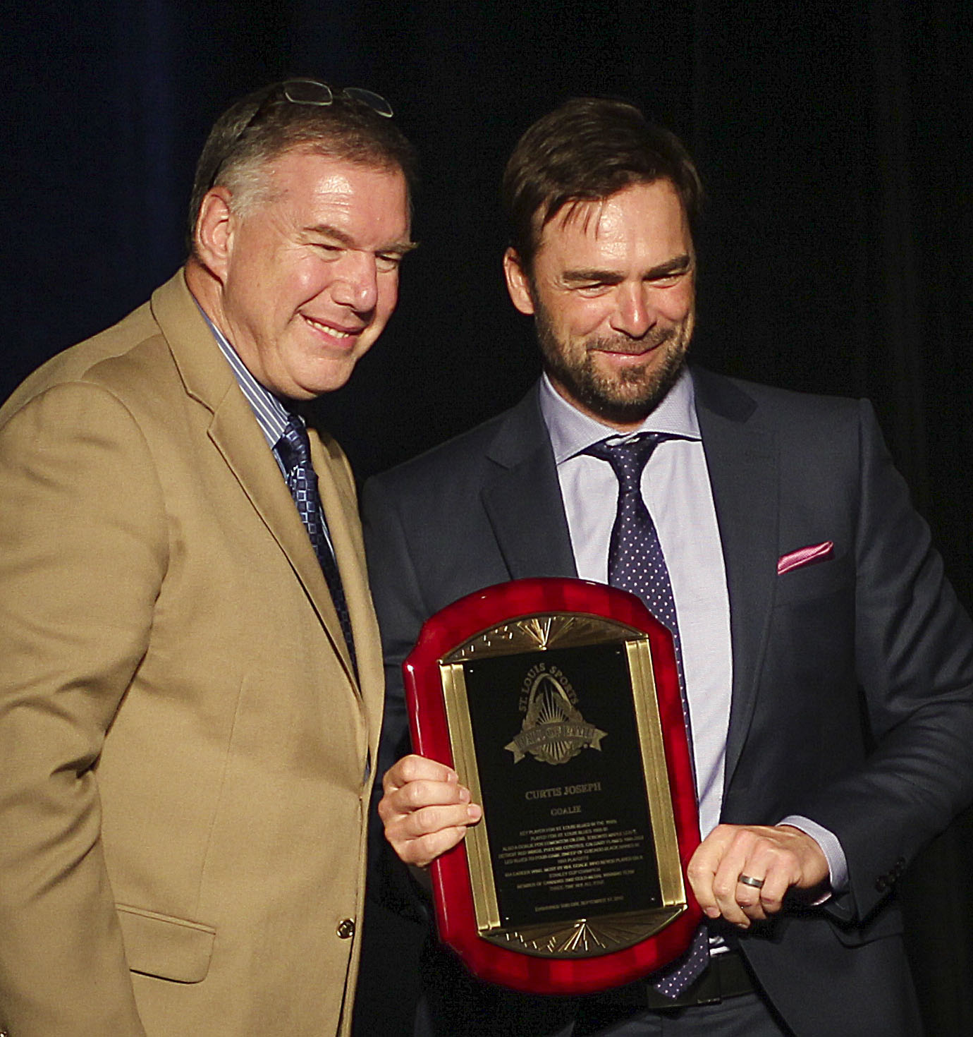 Curtis Joseph inducted into the St.Louis Sports Hall of Fame.